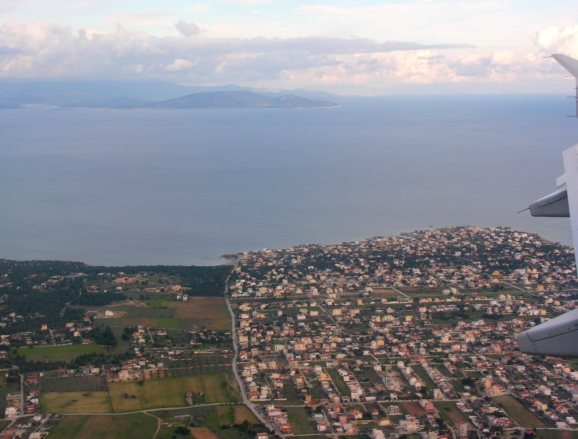 Aerial view of Artemis